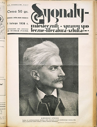 First page of the Magazine Sygnały, February 1938